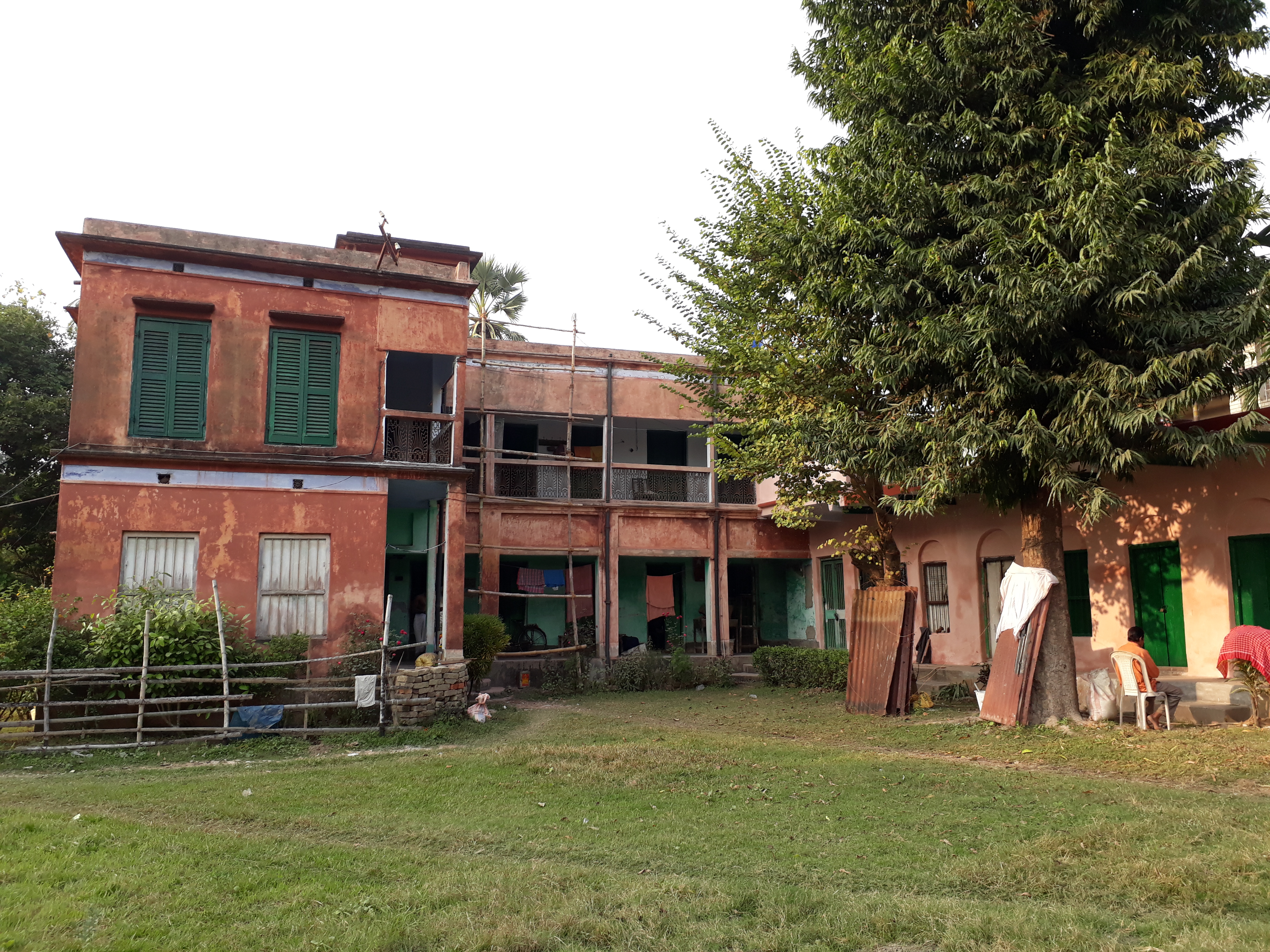 Nationalist organization of Chandannagar, Hooghly.